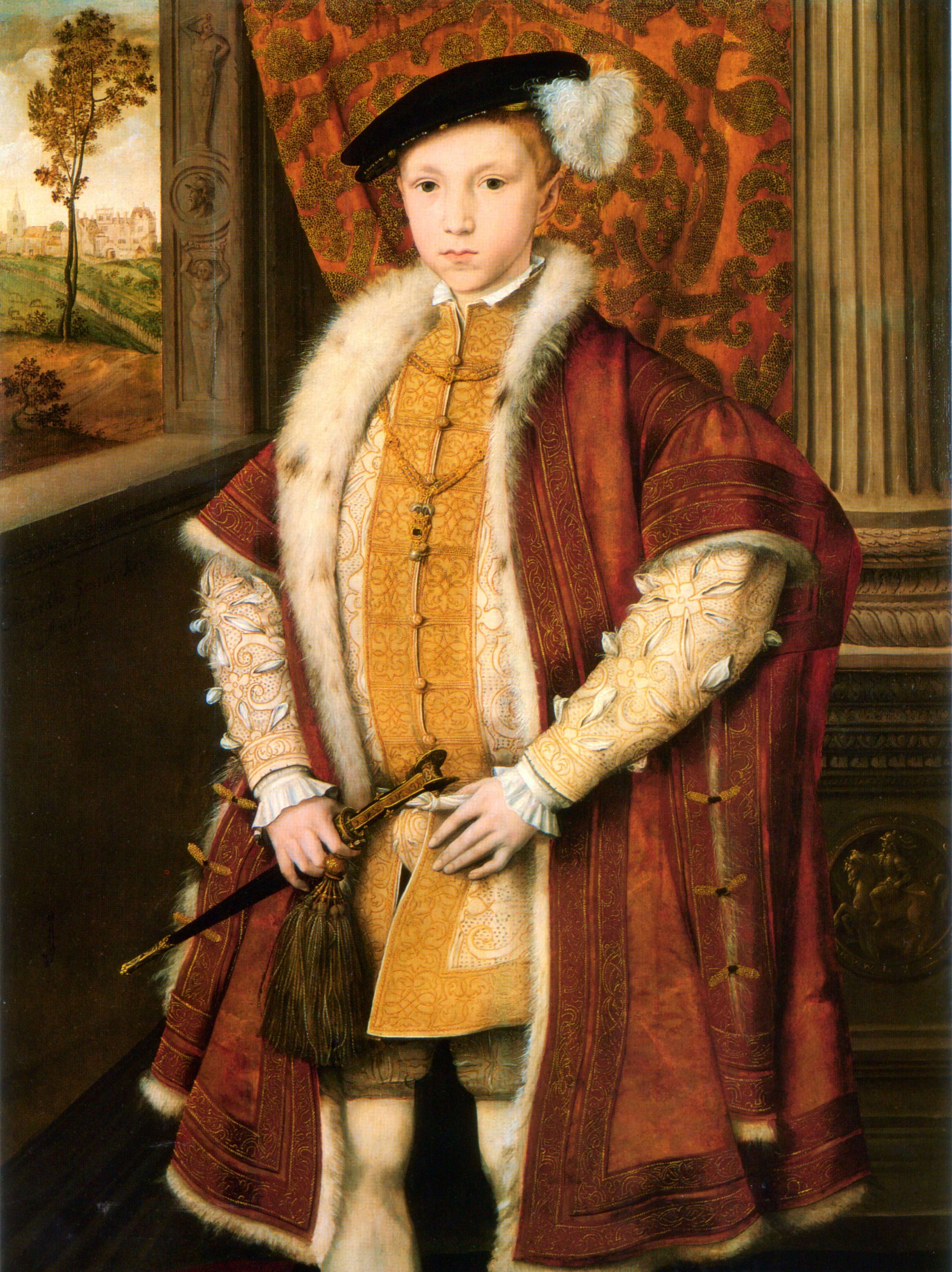 Edward VI of England in the Queen's Drawing Room, Windsor Castle. The figure is wearing several layers of clothing. The layer closest to the body is a chemise. It is visible in this image through the slashes, around the wrists, and at the neck.